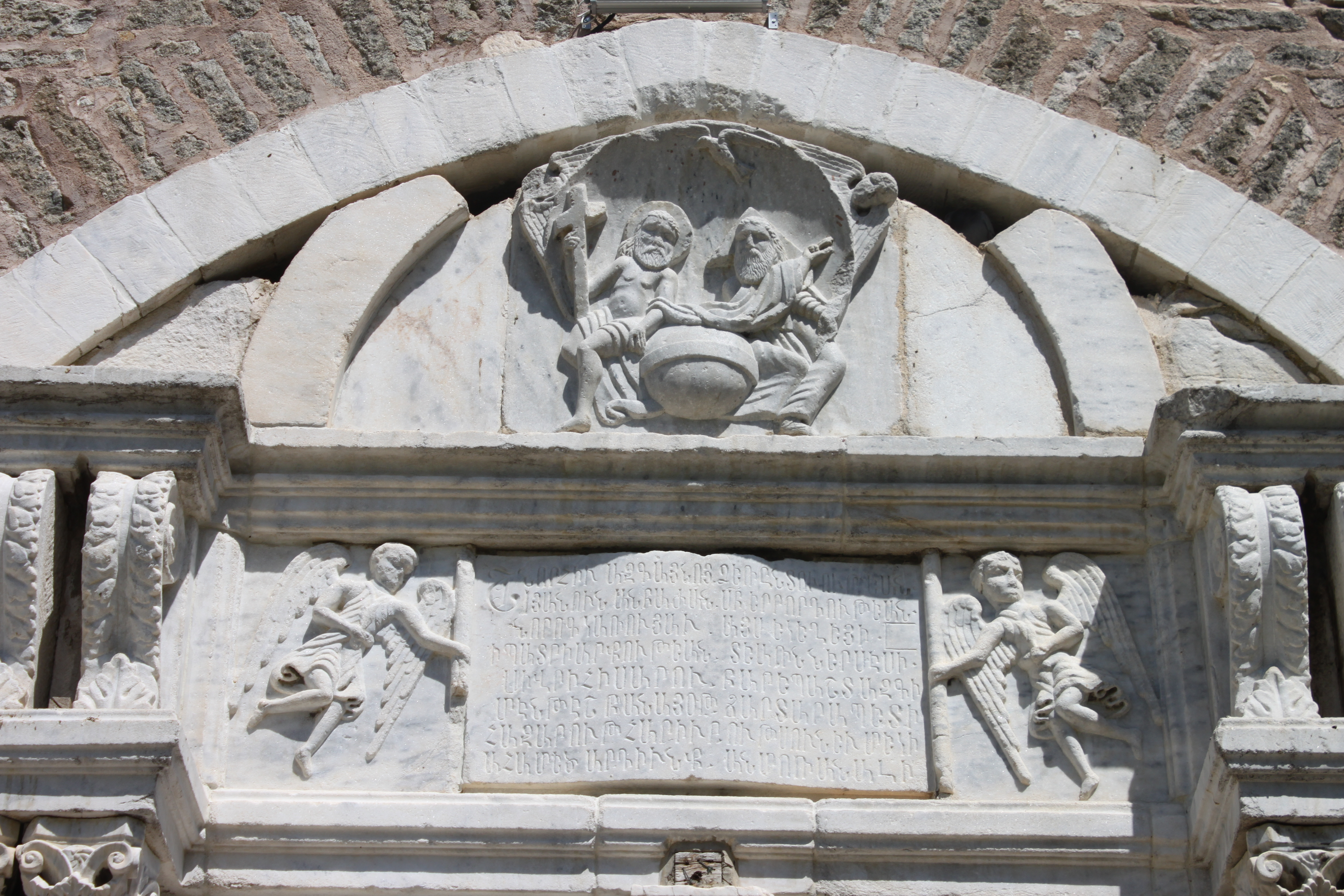 Portal of the Holy Trinity Church, east view; Sivrihisar